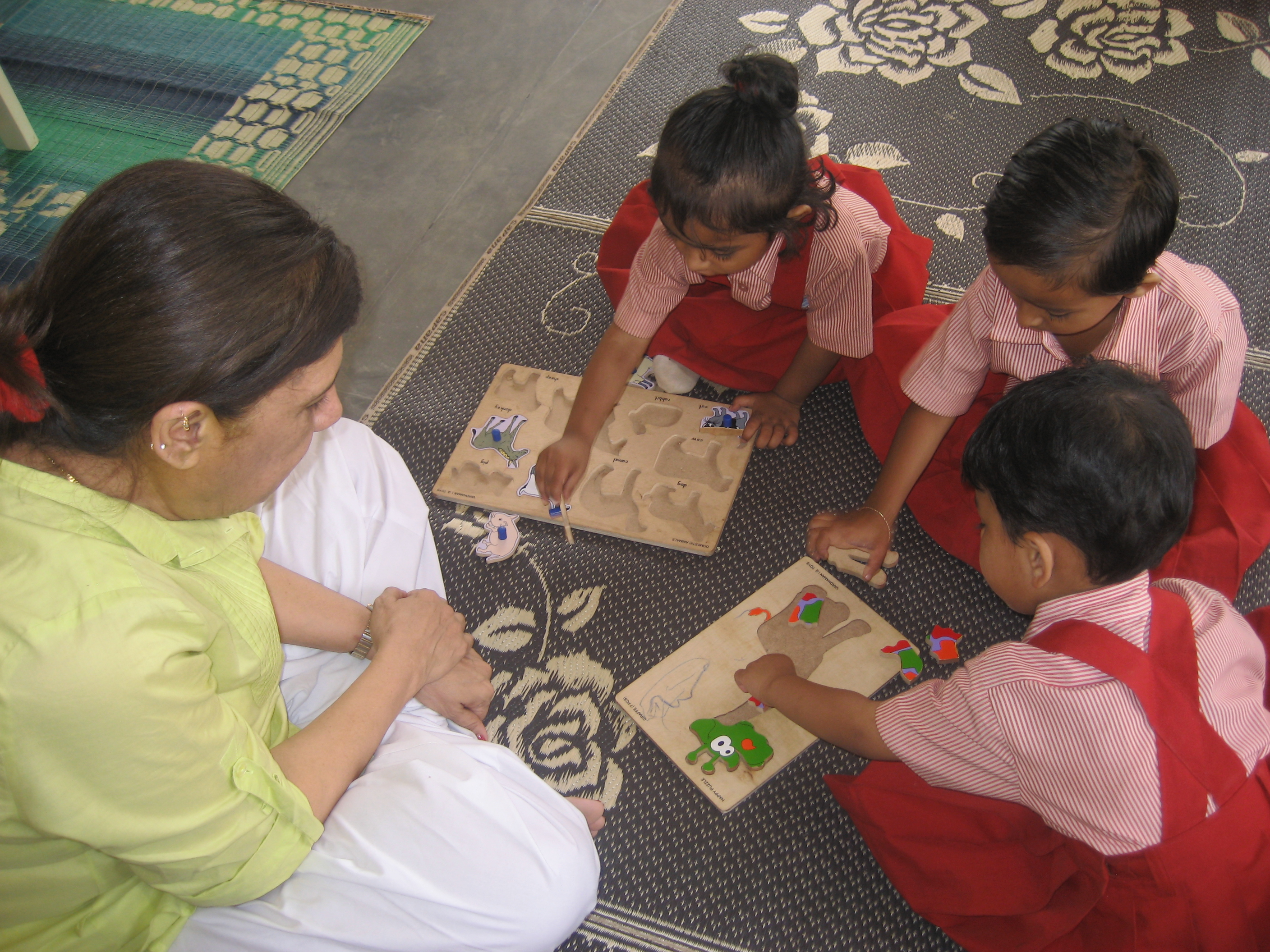 learning center